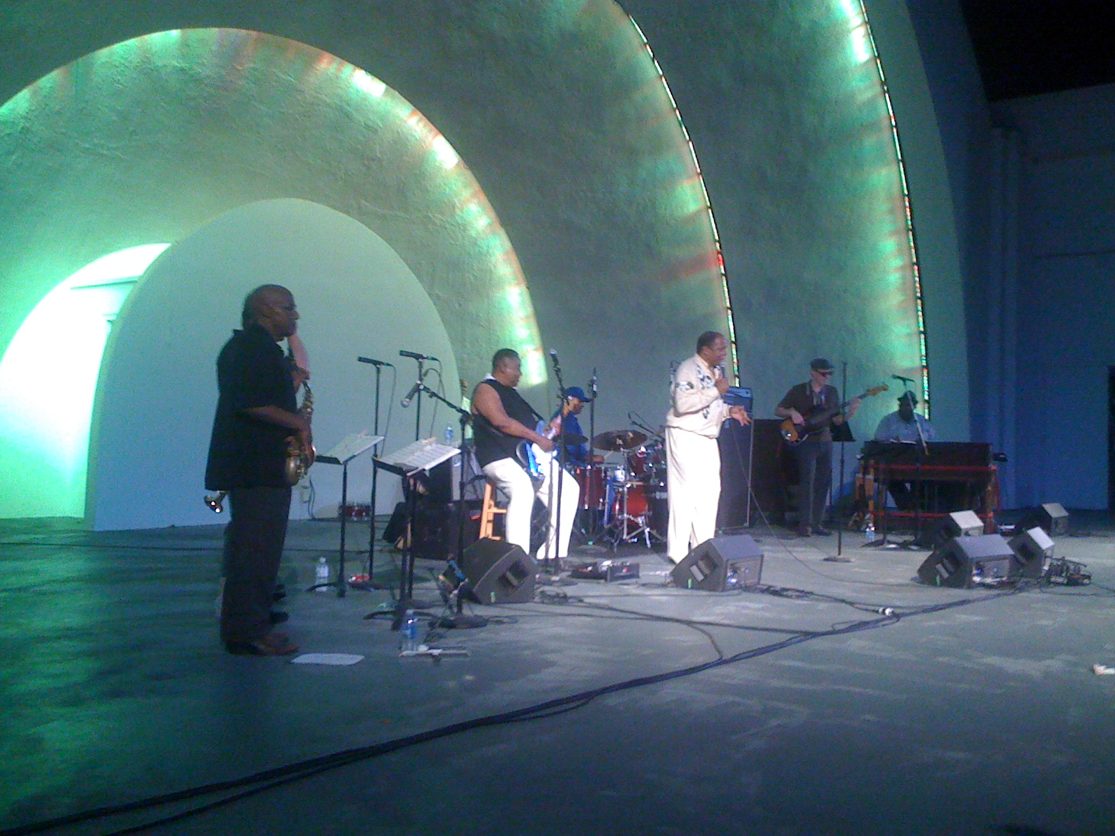 Musicians performing at the Levitt Shell in Memphis, Tennessee on 06-18-2012